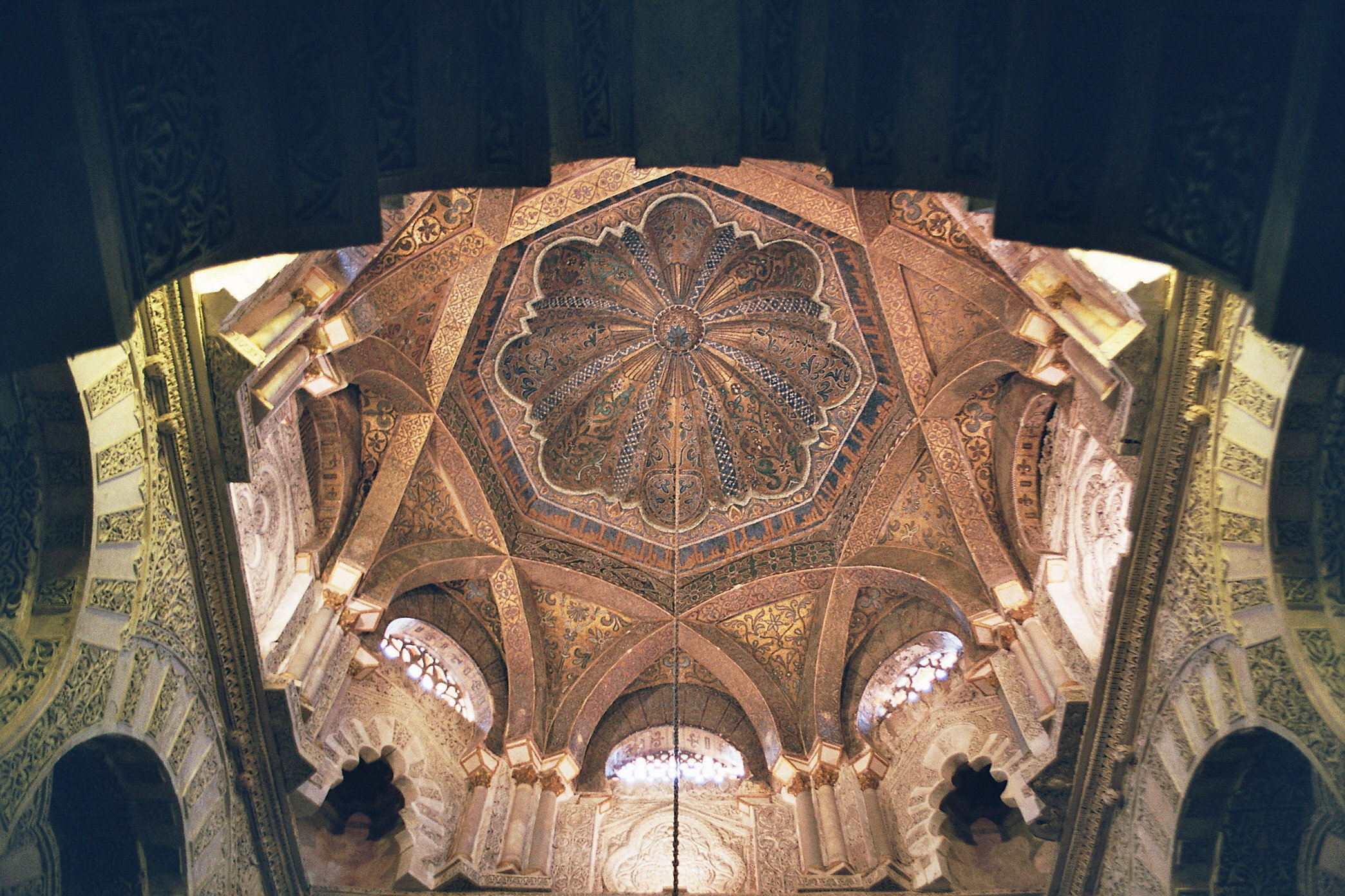 Córdoba, Spain, Mosque–Cathedral of Córdoba, dome of the old mosque